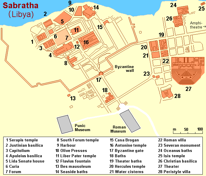 Map (rough) of ancient Sabratha, Libya, own work composed from various map references